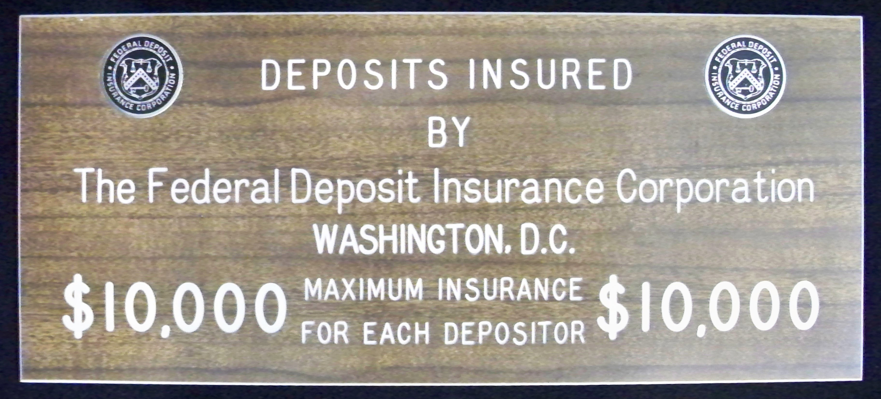 FDIC placard from when the deposit insurance limit was $10,000.